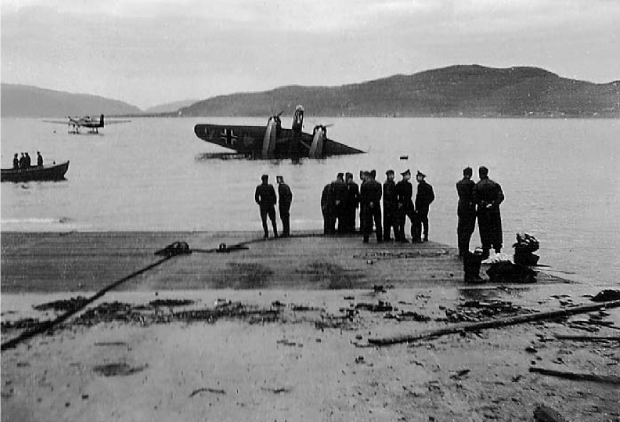 Aftermath of the bombing of Tromsø Airport, Skattøra. The sinking aircraft is a Heinkel He 115.